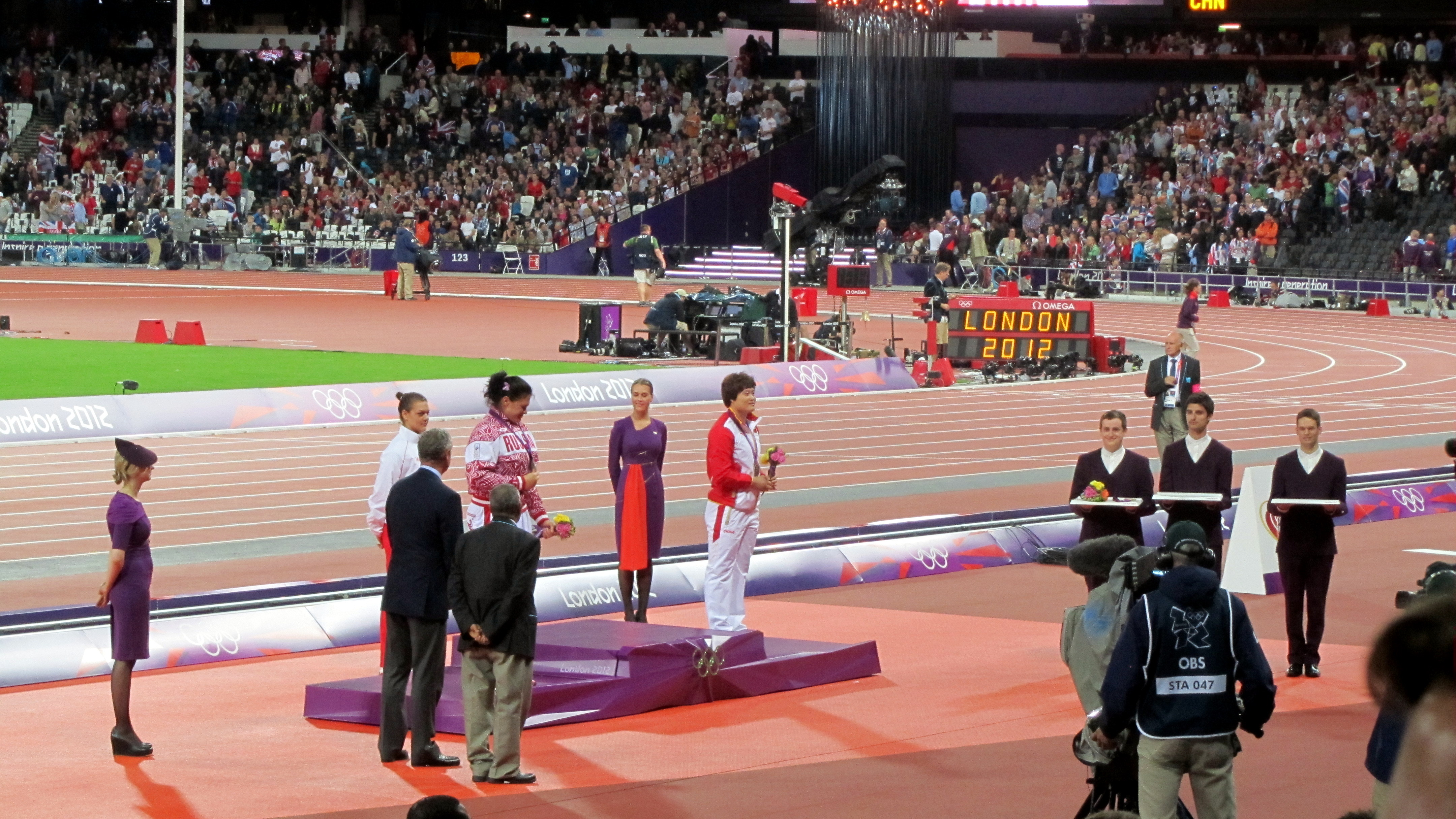 Gold: Sandra Perković (Croatia); Darya Pishchalnikova (Russia); Li Yanfeng (China)